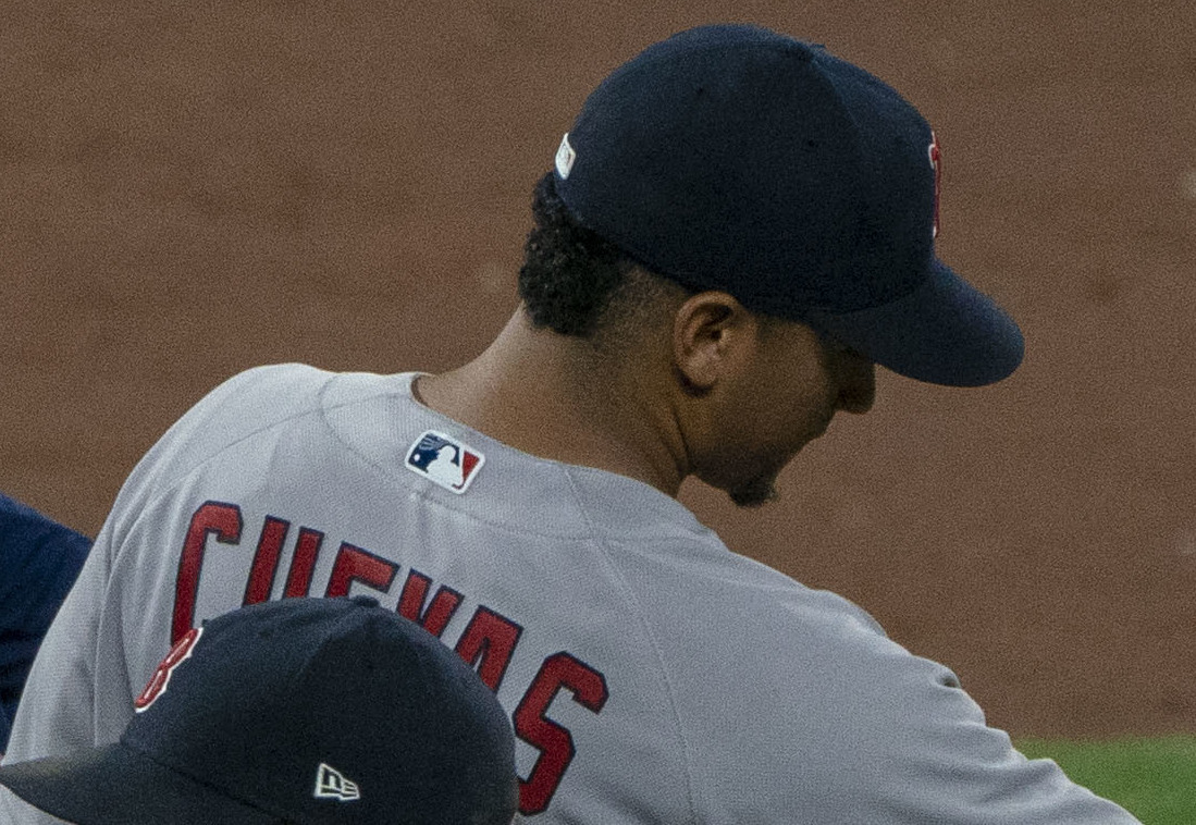 Boston Red Sox players including Mitch Moreland, Craig Kimbrel, William Cuevas and Sandy Leon congratulate each other after a win at Camden Yards in Baltimore in 2018